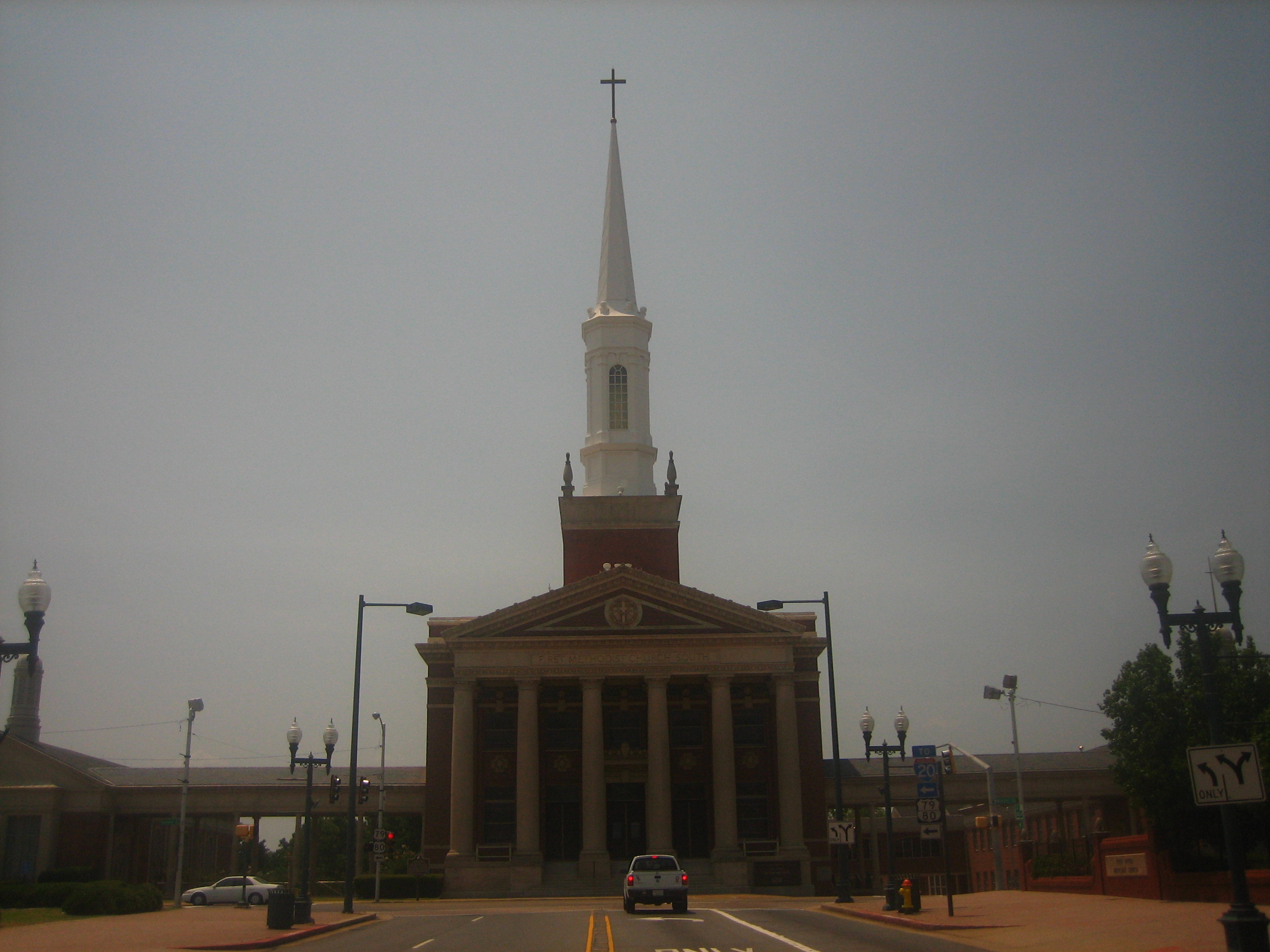 I took photo on Aug. 3, 2008.Billy Hathorn (talk) 17:02, 20 August 2008 (UTC)